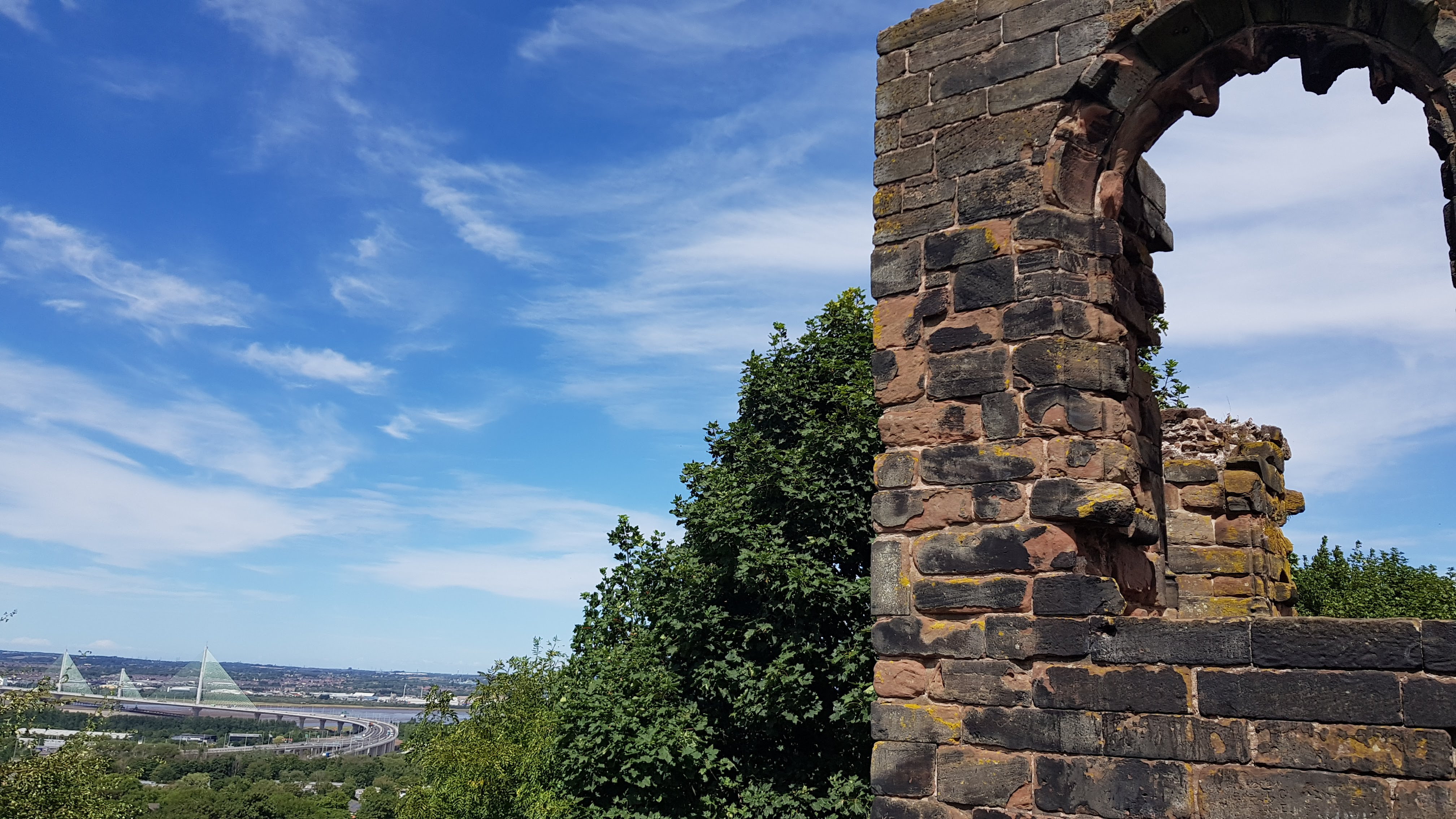 Halton Castle looking down on the Mersey Gateway in Runcorn, Cheshire, England